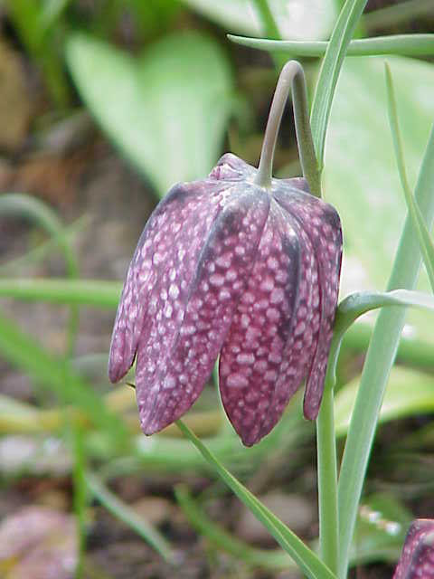 Species: Fritillaria meleagris Family: Liliaceae Image No. 1